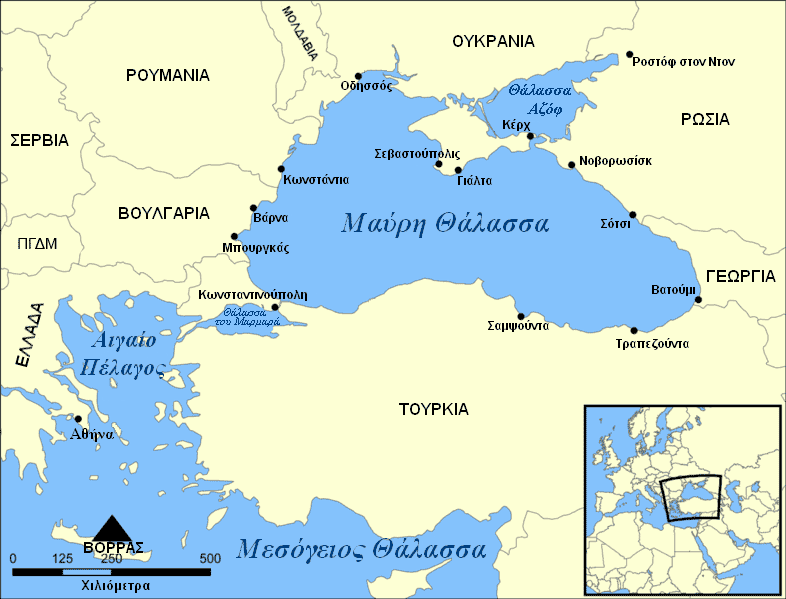 A Greek map showing the location of the Black Sea and some of the large or prominent ports around it. The Sea of Azov and Sea of Marmara are also labeled. Modified by Stackdaniel, July 14, 2008.